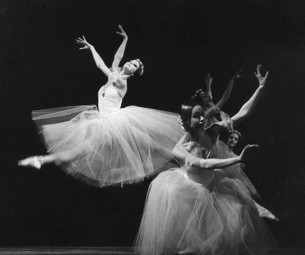 Victoria Mironova - Principal Dancer with the Mikhaylovsky Theatre